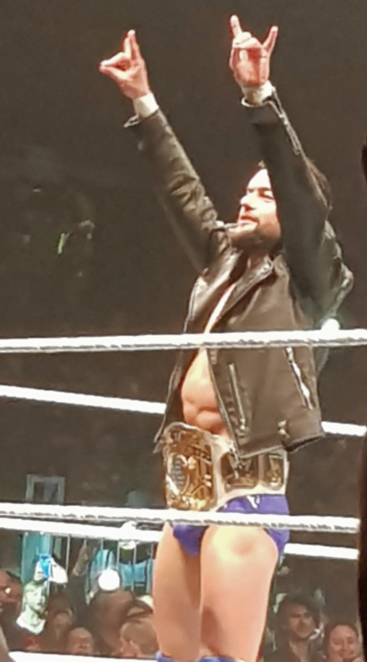 Professional wrestler, Finn Bálor on May 9, 2019, at a WWE event.